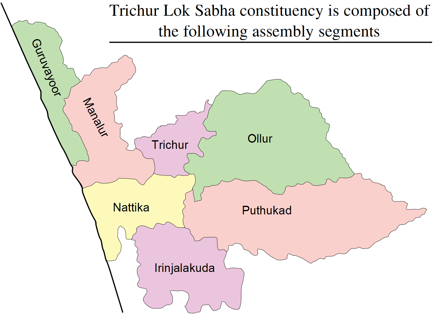 Trichur Assembly Segments, PNG Format, In English